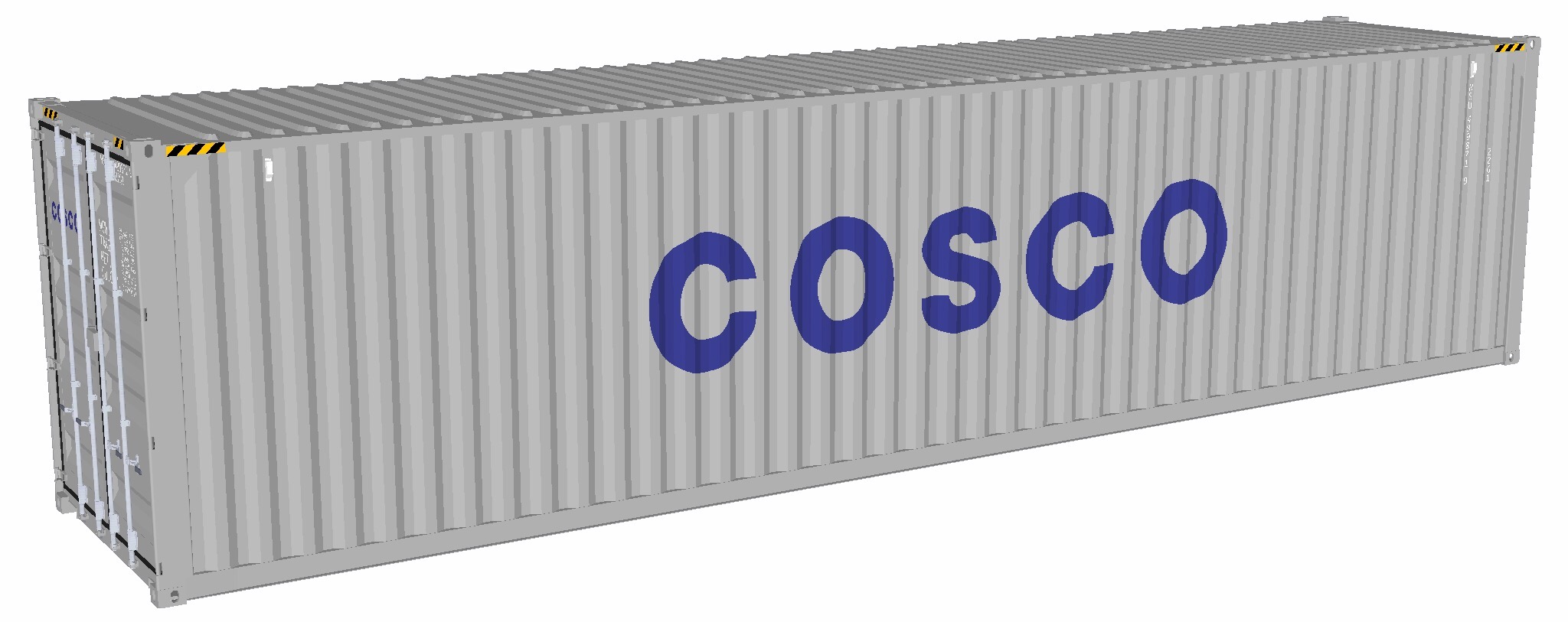 COSCO 40 foot container